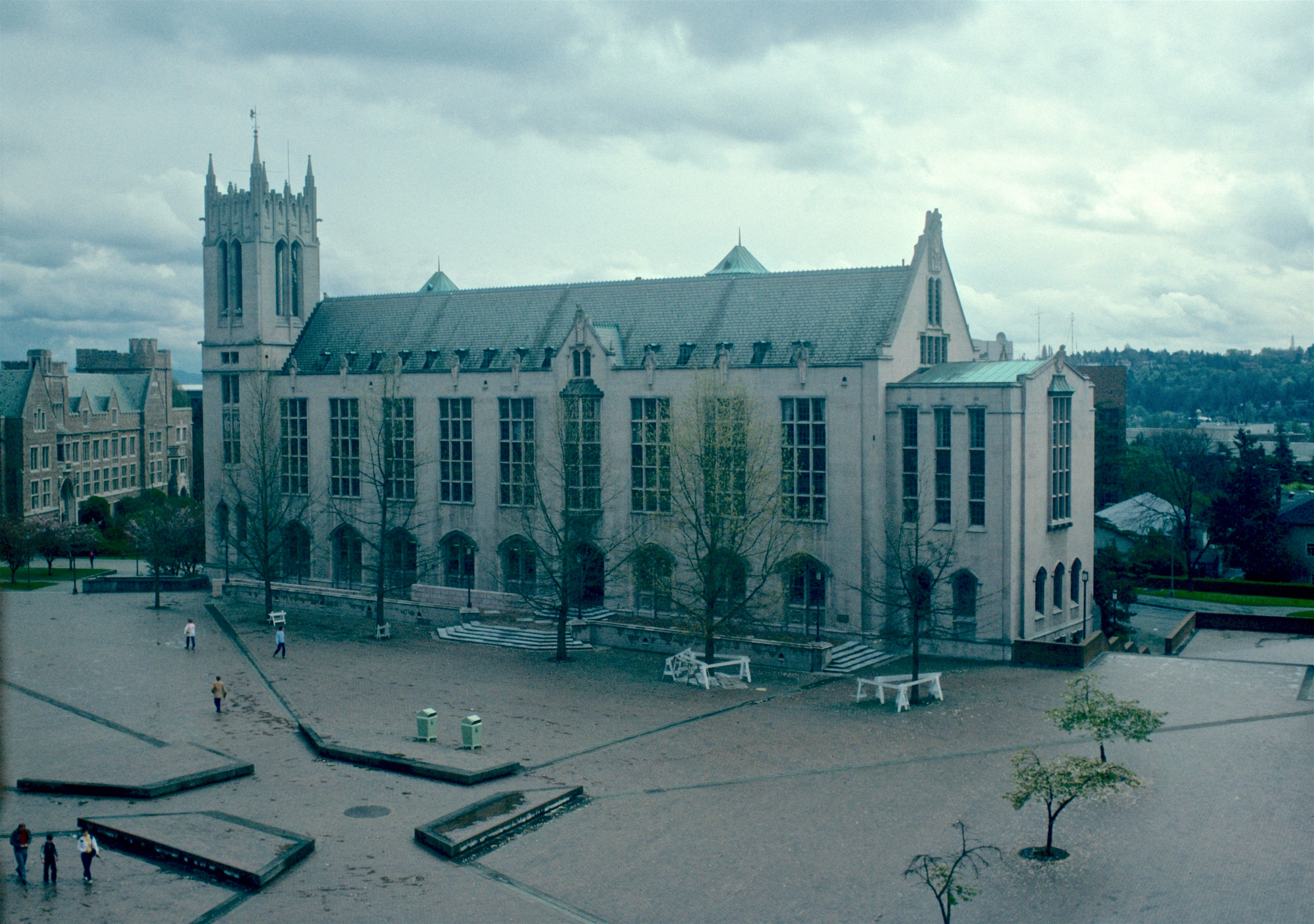 The University of Washington Administration Building (now known as Gerberding Hall), viewed from Odegaard Undergraduate Library in 1984. It was built in 1949. "Red Square" is in the foreground.